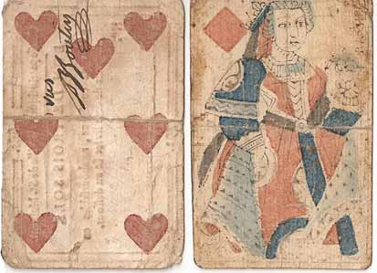 Obverse, playing card money (billets de confiance), Saint-Maixent (Deux-Sèvres departement). Left is a seven of hearts, with a value of 3 sols (cents). Right is a queen of diamonds, worth 15 sols (cents).